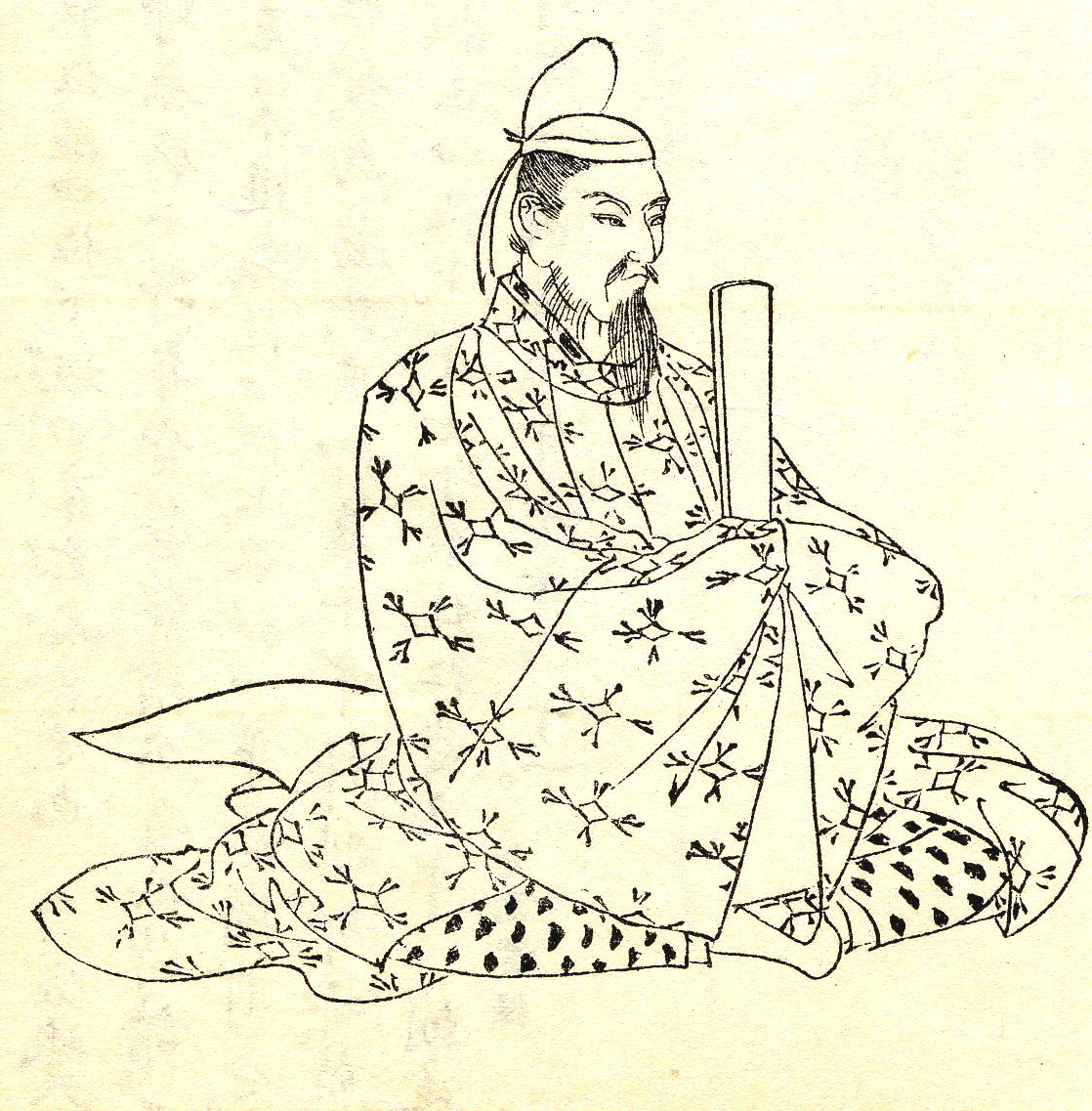 Fujiwara no Nagara(藤原長良) was a Japanese politician and court noble in the Heian era.